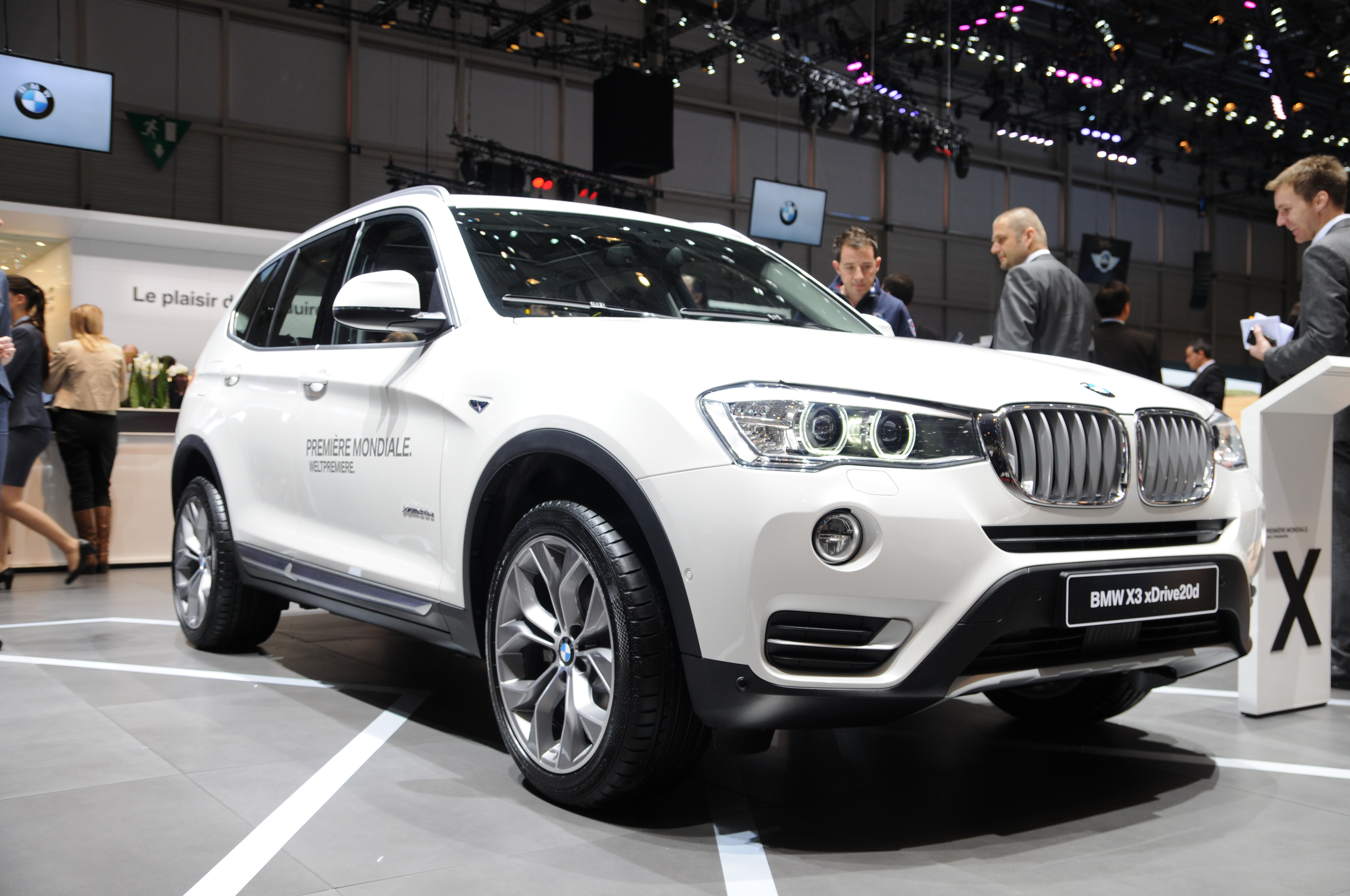 Geneva Motor Show 2014 (photo taken on the first press day)